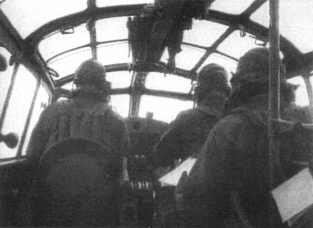 View of the pilot cabin of G4M